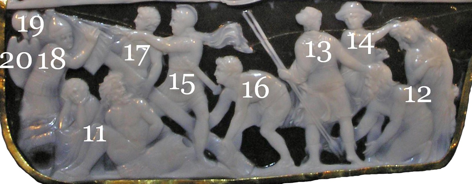 Gemma Augustea, a depiction of Emperor Augustus surrounded by goddesses and allegories. Collection of Greek and Roman Antiquities in the Kunsthistorisches Museum, Vienna. Roman, 9-12 CE. Two-Layered onyx. H: 19 cm. Setting: gold frame, reverse side in ornamented open-work; German, 17th century. AS Inv. No. IX A 79.